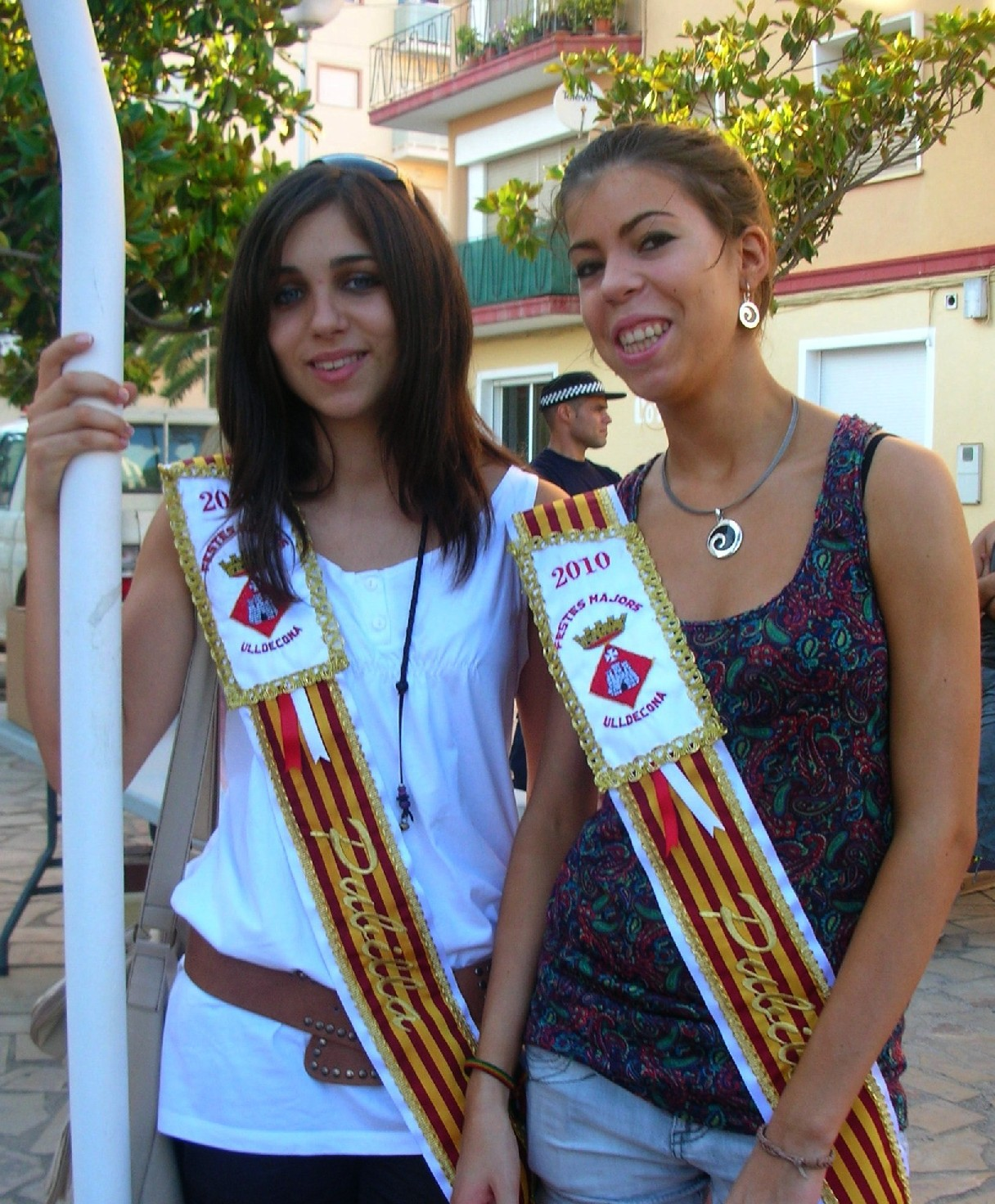 Pubilles at Ulldecona yearly celebrations